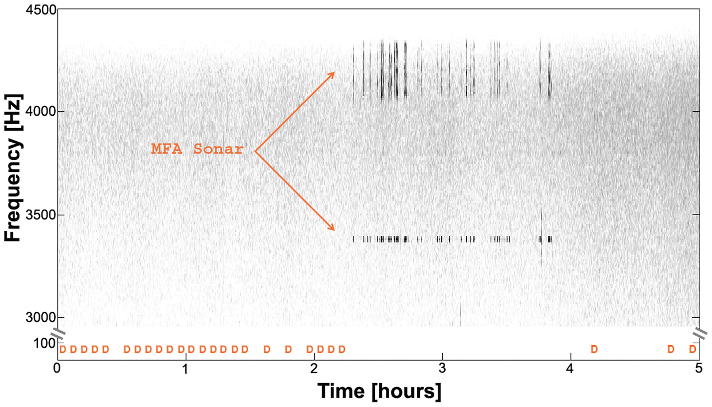 Long-term spectral average of 5 hours. Each orange “D” represents presence of D calls in 5-minute bins in the lower frequency band (25–100 Hz). Note the continuous presence of D calls for over 2 hours until the onset of MFA sonar (not a particularly close event, with signals every 10–30 seconds), at which time at which the whales cease production of D calls. After sonar cessation, blue whales start producing D calls again. See: Melcón ML, Cummins AJ, Kerosky SM, Roche LK, Wiggins SM, et al. (2012) Blue Whales Respond to Anthropogenic Noise. PLoS ONE 7(2): e32681.